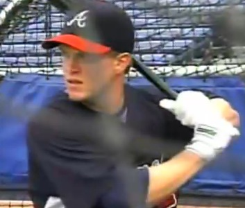 Nate McLouth